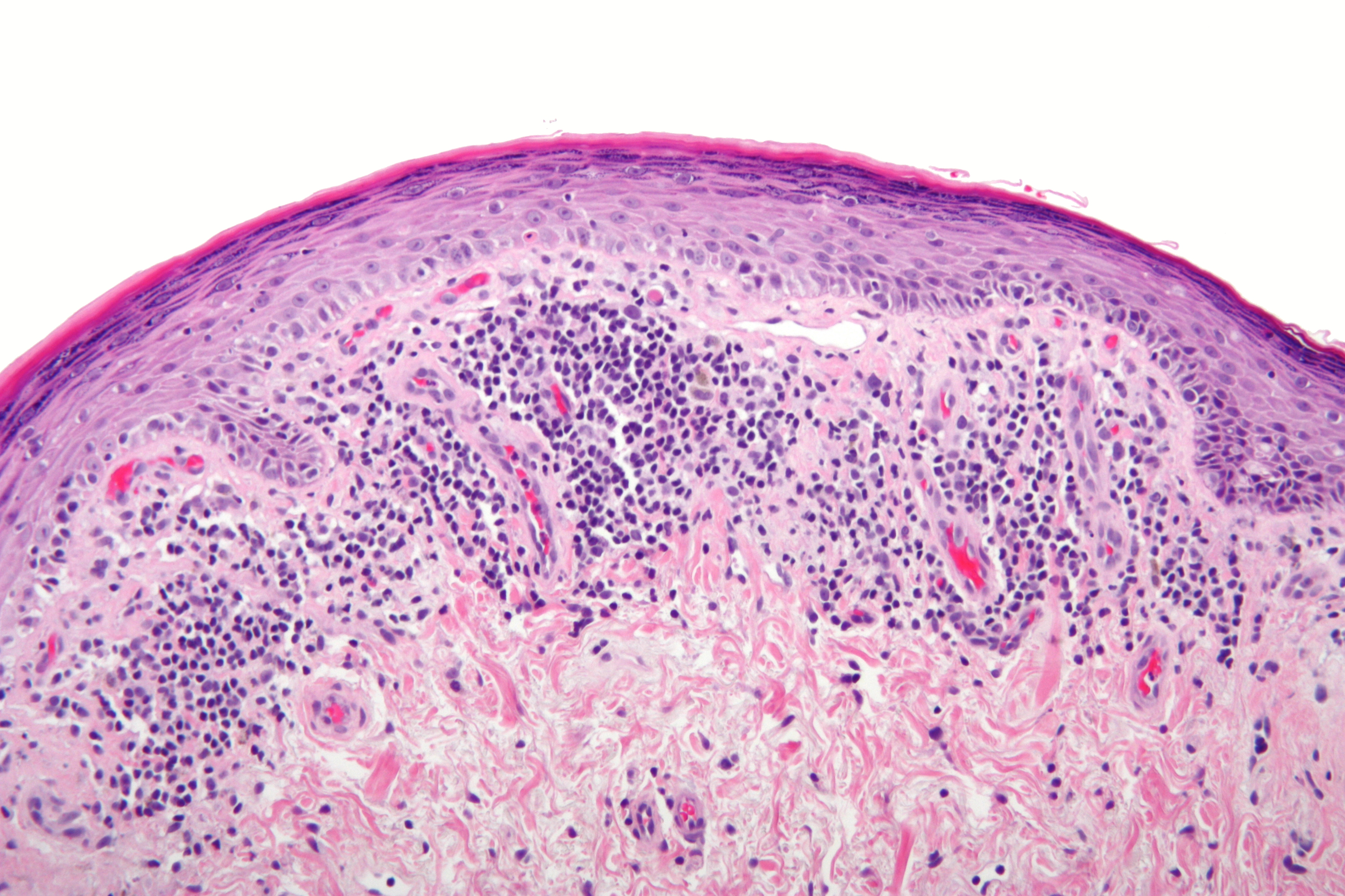 Micrograph of lichen planus. H&E stain. Features: Loss of rete ridges. Loss of basal cells (stratum basale). Interface dermatitis (lymphocytes at dermal-epidermal junction). Related images Low mag.